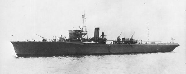 Japanese minelayer "Shirataka" at Tokyo Port.